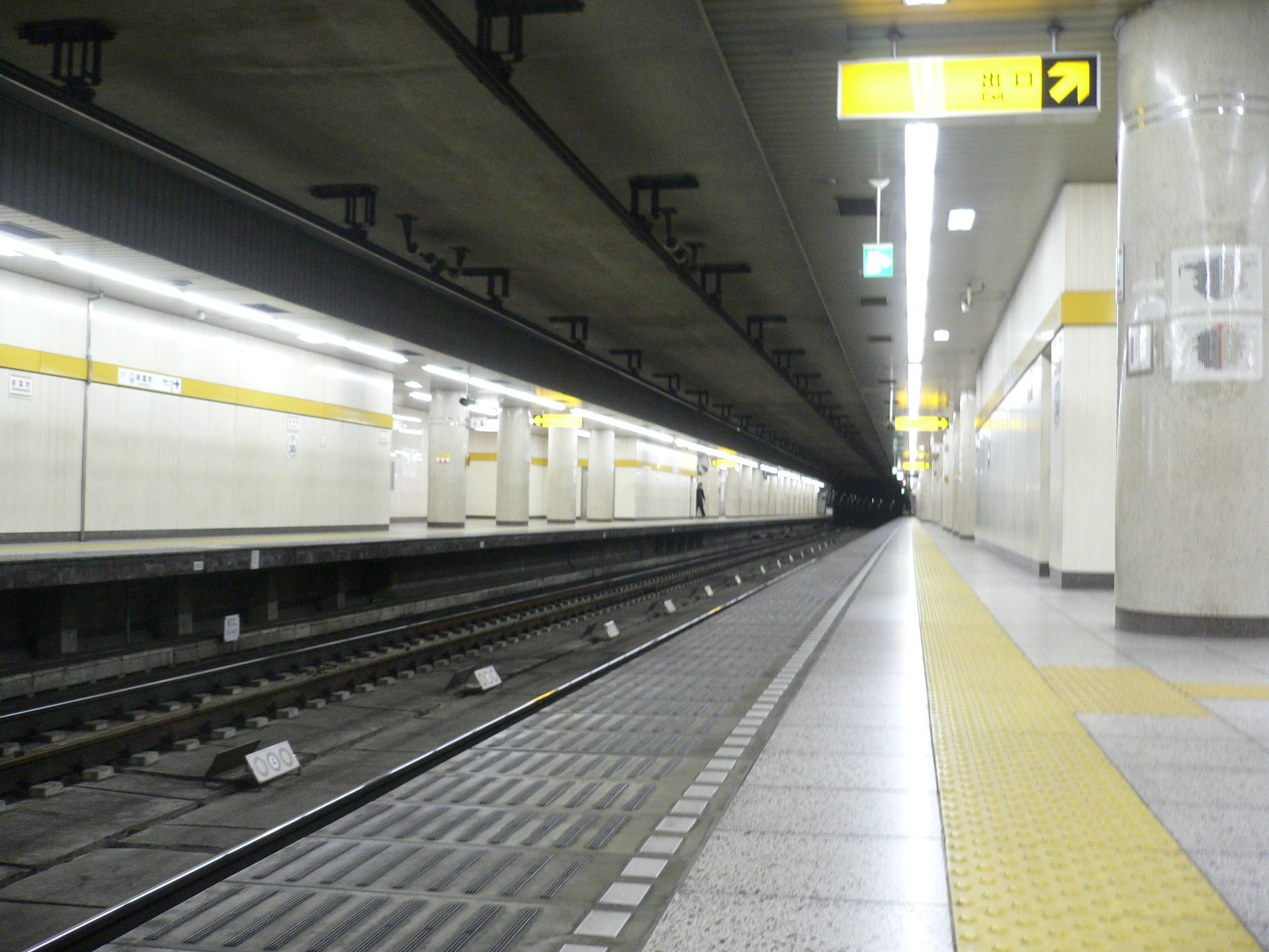 The platforms at Shintomichō Station on the Tokyo Metro Yurakucho Line in Chuo, Tokyo